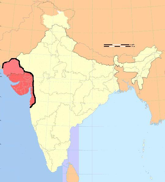 Aparanta, or Aparantaka (meaning "Western border") was a geographical region of ancient India, variously corresponding to the northern Konkan, northern Gujarat, Kathiawar, Kachch and Sindh.